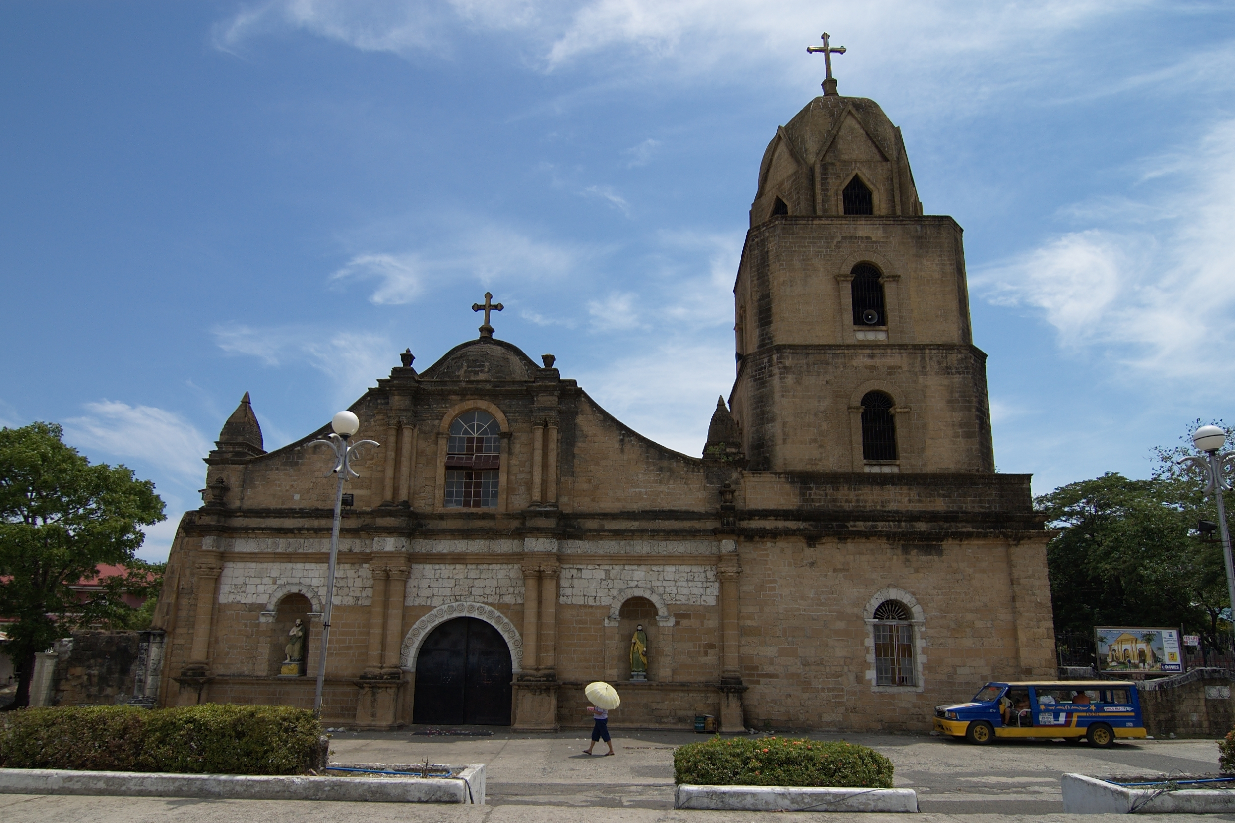 Guimbal, Iloilo